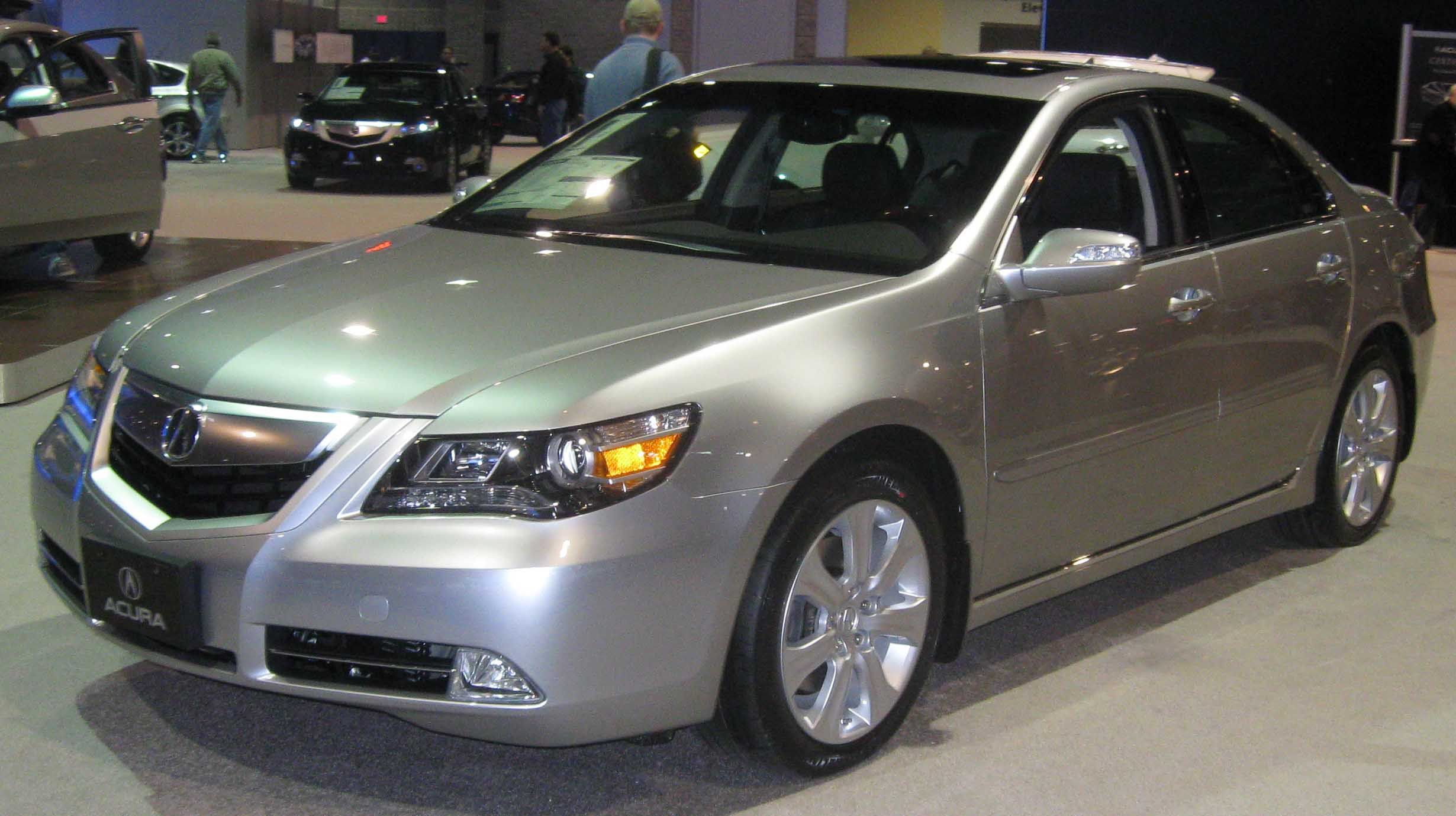 2009 Acura RL photographed at the 2009 Washington DC Auto Show.